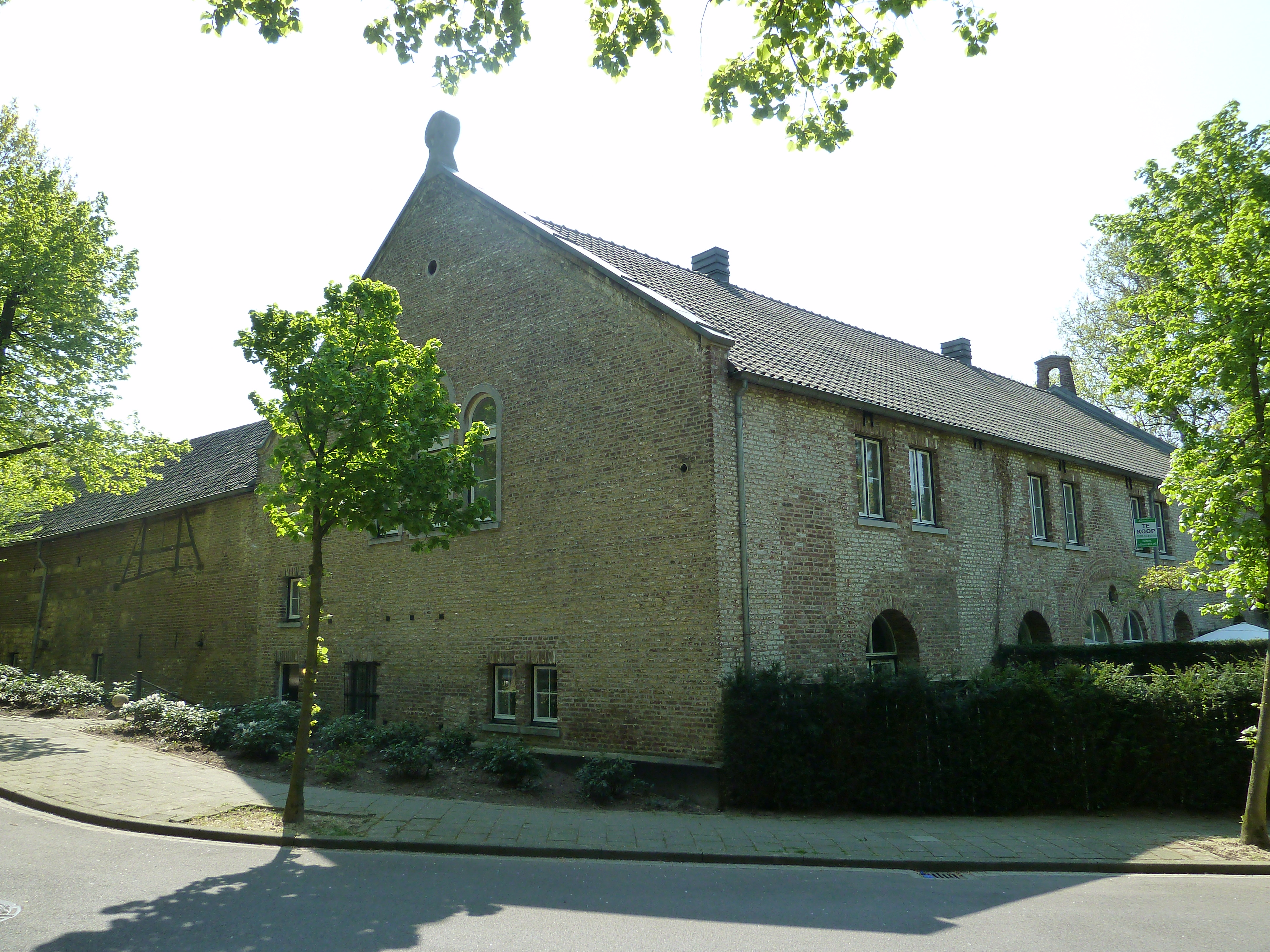 Caumermolenweg 37, Heerlen, Limburg, the Netherlands